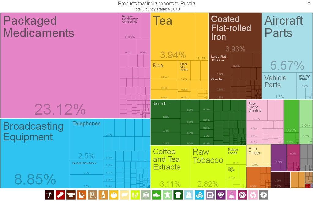 Indian exports to Russia in 2012 Treemap from MIT Harvard Economic Complexity Observatory